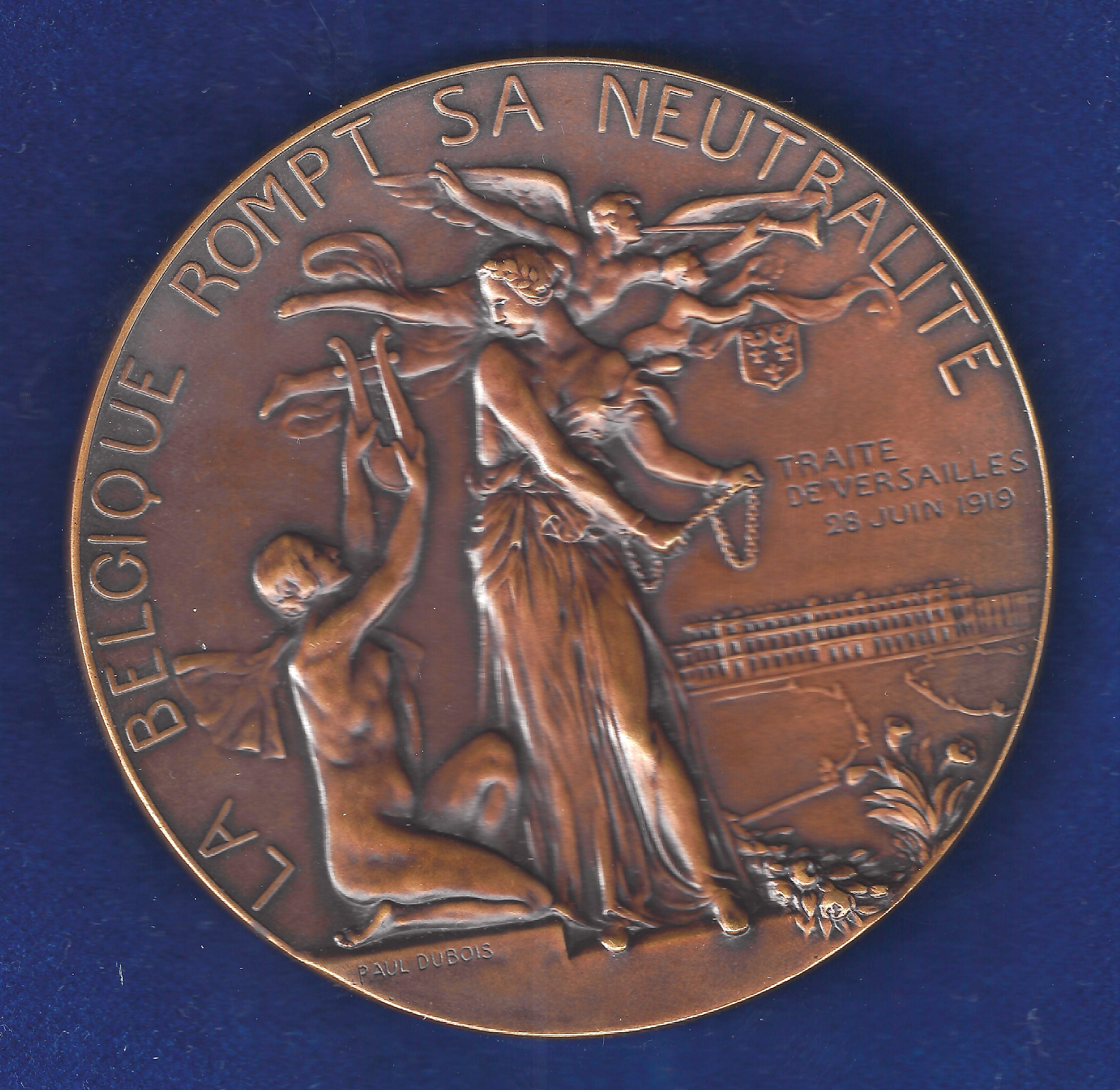 Belgium 1919 Medal by Dubois Occupation of Germany after the Peace of Versailles Bronze d.= 70 mm. The angel of peace flying r. above the liberated personification of Belgium. 3 lines at r.: "TRAITE DE VERSAILLES 28 JUIN 1919". Curved above: "LA BELGIQUE ROMPT SA NEUTRALITE". / A standing Belgian soldier facing East against Germany, curved above: "L' ARMEE BELGE PATICIPE A LA GARDE DU RHIN". Medallist: Monogram DB (Paul Du Bois), 1859 Aywaille near Liège, Belgium - 1938 Brussels- Uccle Condition: Perfect UNCIRCULATED.